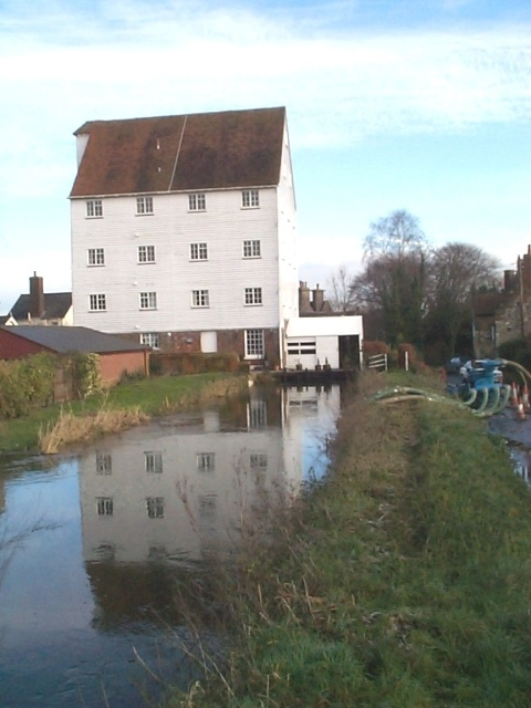 Photograph of Wickhambreaux mill